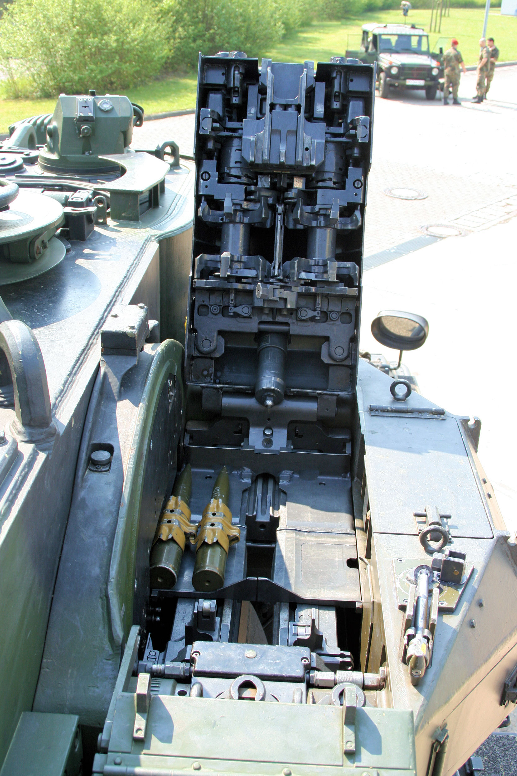 Gepard 1A2 Waffe rechts Gepard 1A2 right weapon